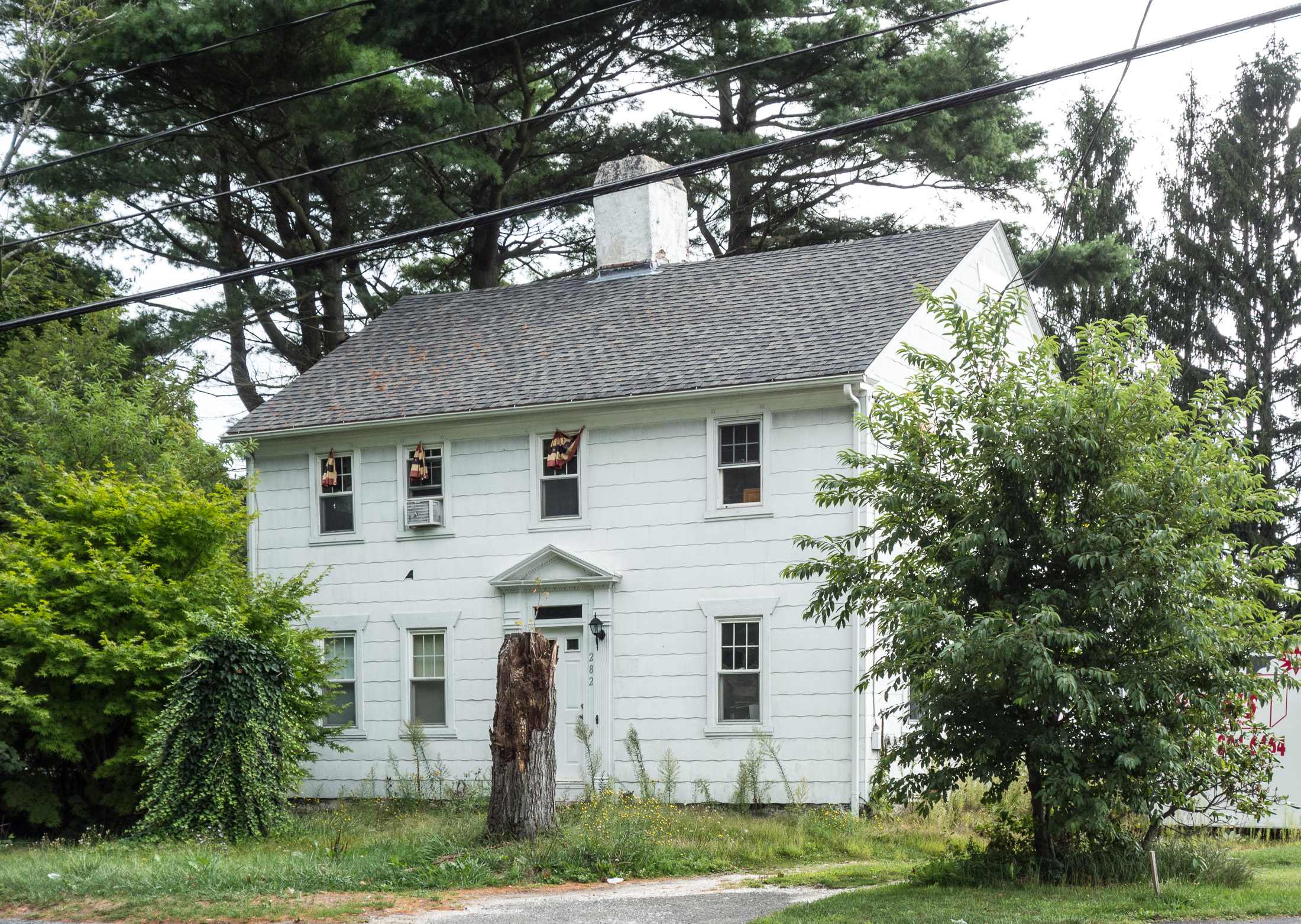 Short